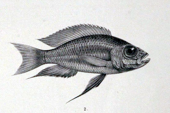 Aulonocranus dewindti